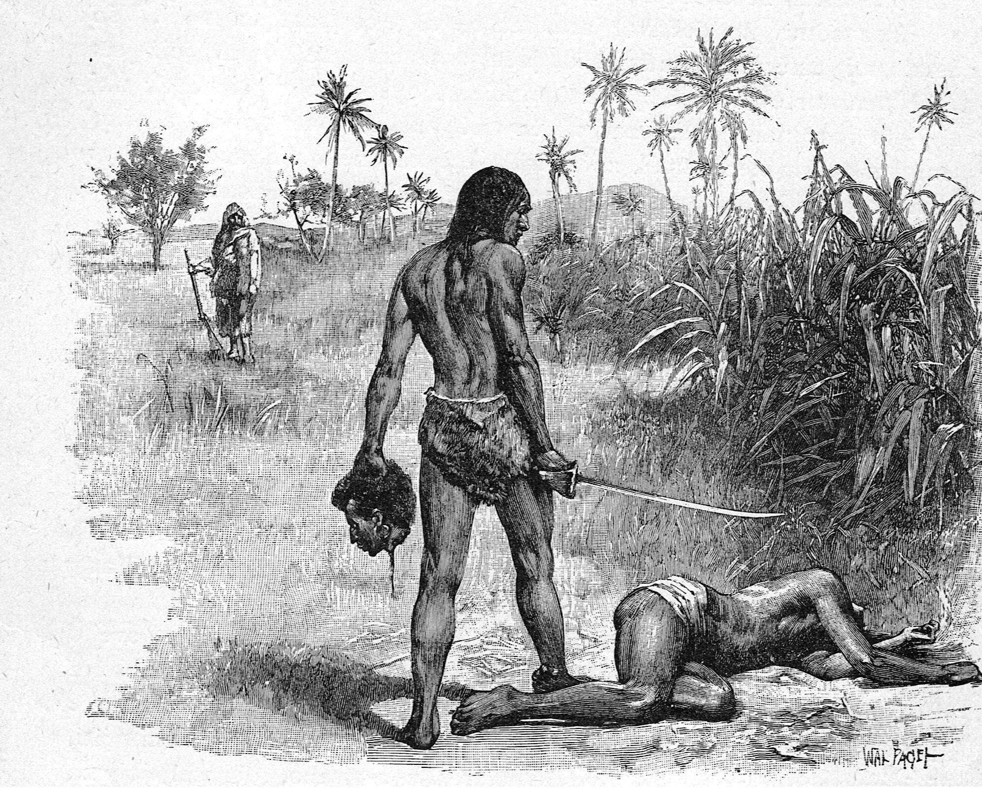 Page 149 of the Czech edition 1894 (Friday's first act after the rescue)